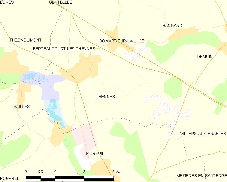 Map of French municipality Thennes